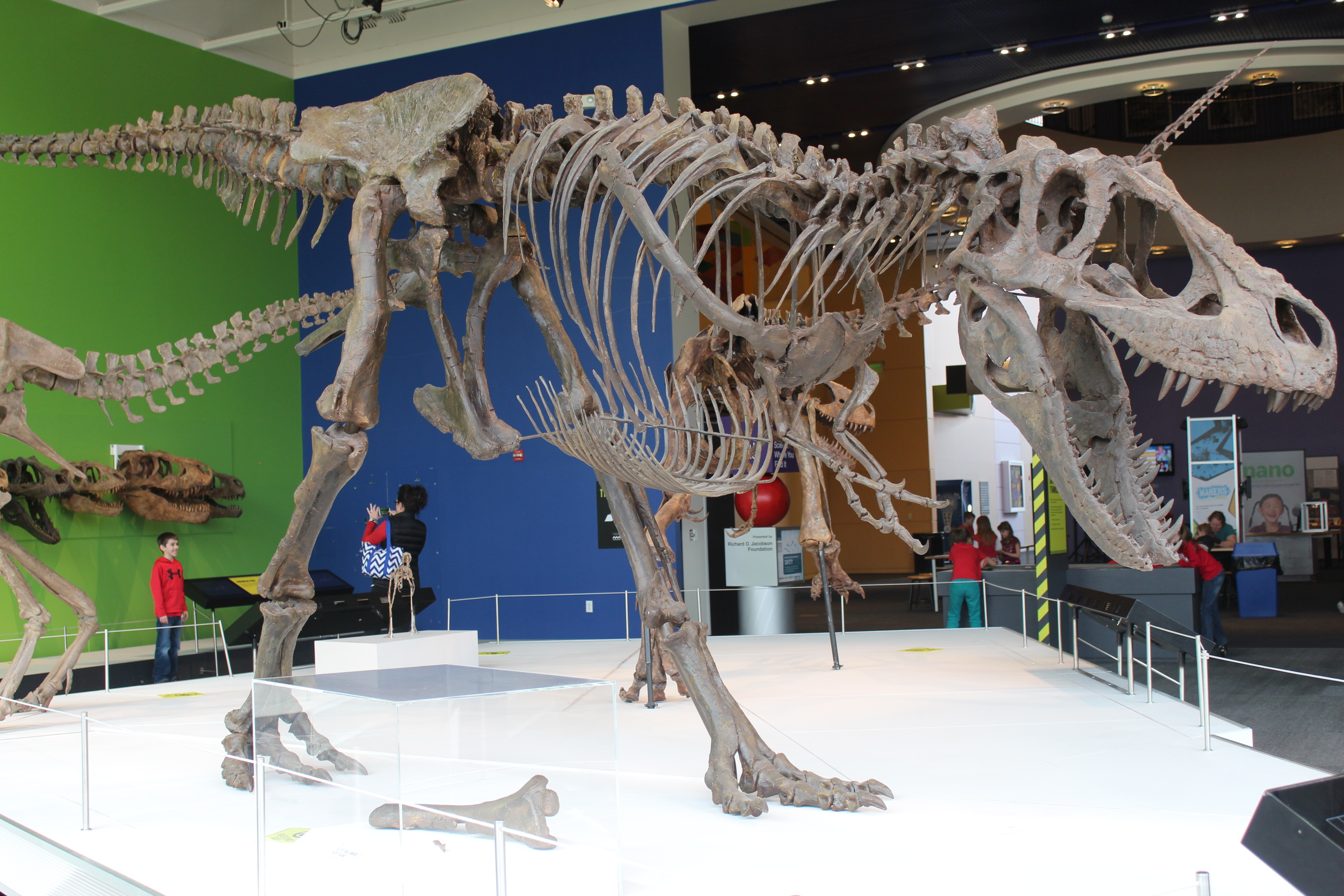 A Daspletosaurus torosus cast mounted at the Science Center of Iowa during the temporary exhibition Tyrannosaurs: Meet the Family.